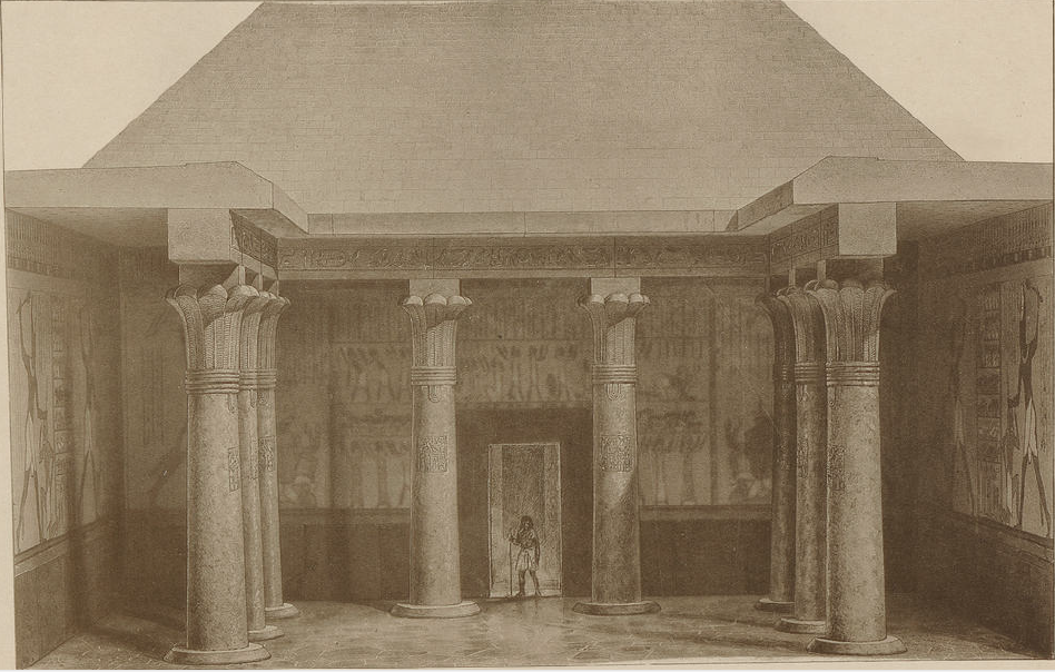 1910 reconstruction by L. Borchardt (1863 – 1938) of the open courtyard of Sahure's high temple. Excavation report available copyright-free at